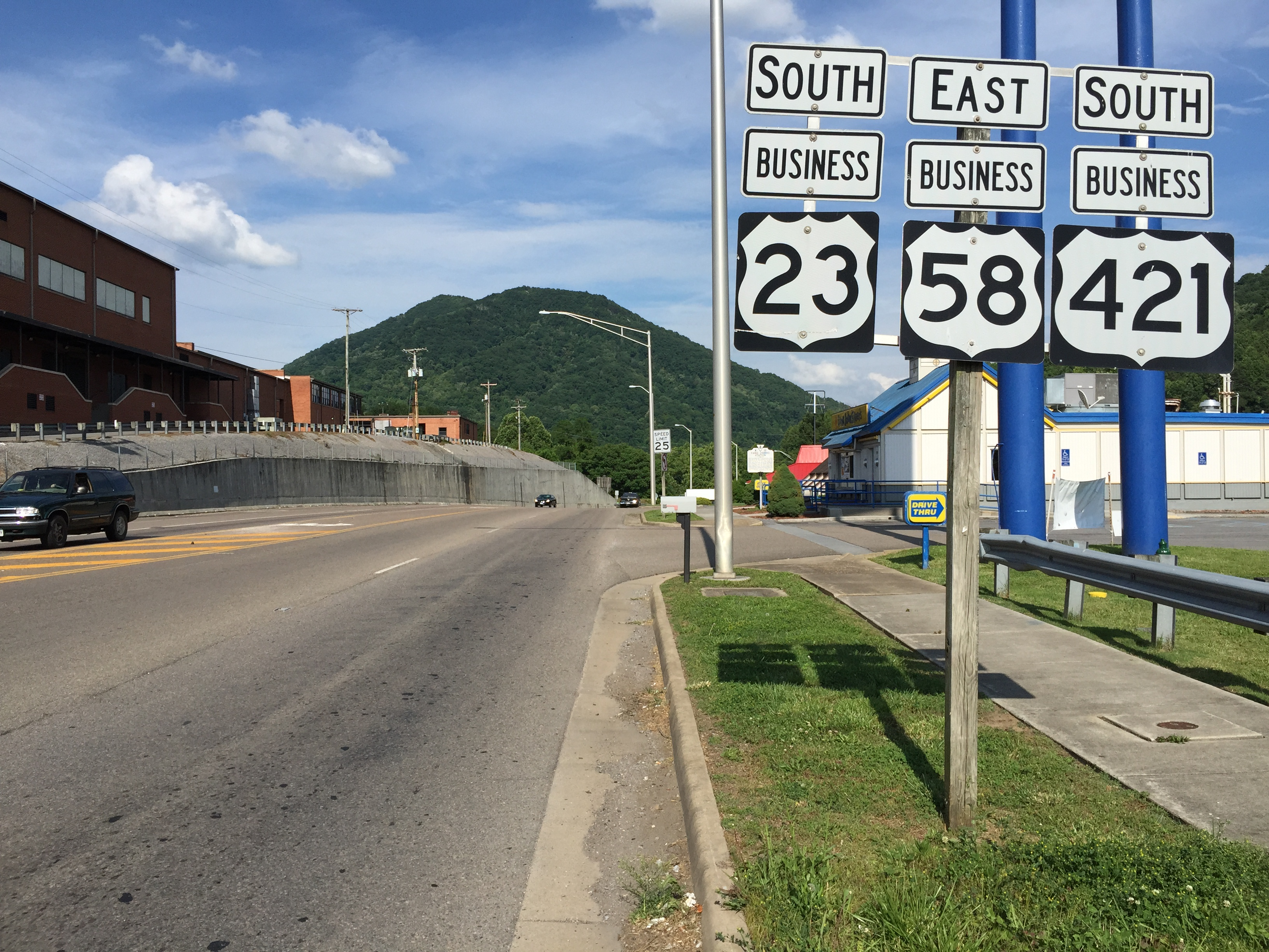 View south along U.S. Route 23 Business and U.S. Route 421 Business and east along U.S. Route 58 Business (Kane Street) at Jones Street in Gate City, Scott County, Virginia